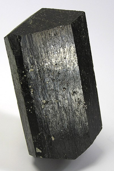 Schorl Locality: Carnarvon, Western Australia, Australia (Locality at ) Size: 7.9 x 4.3 x 3.9 cm. This is a rare example of a schorl with two pyramidal terminations - instead of one of these, with a flat pinacoidal termination at the other end. Ex. Richard Hauck Collection.